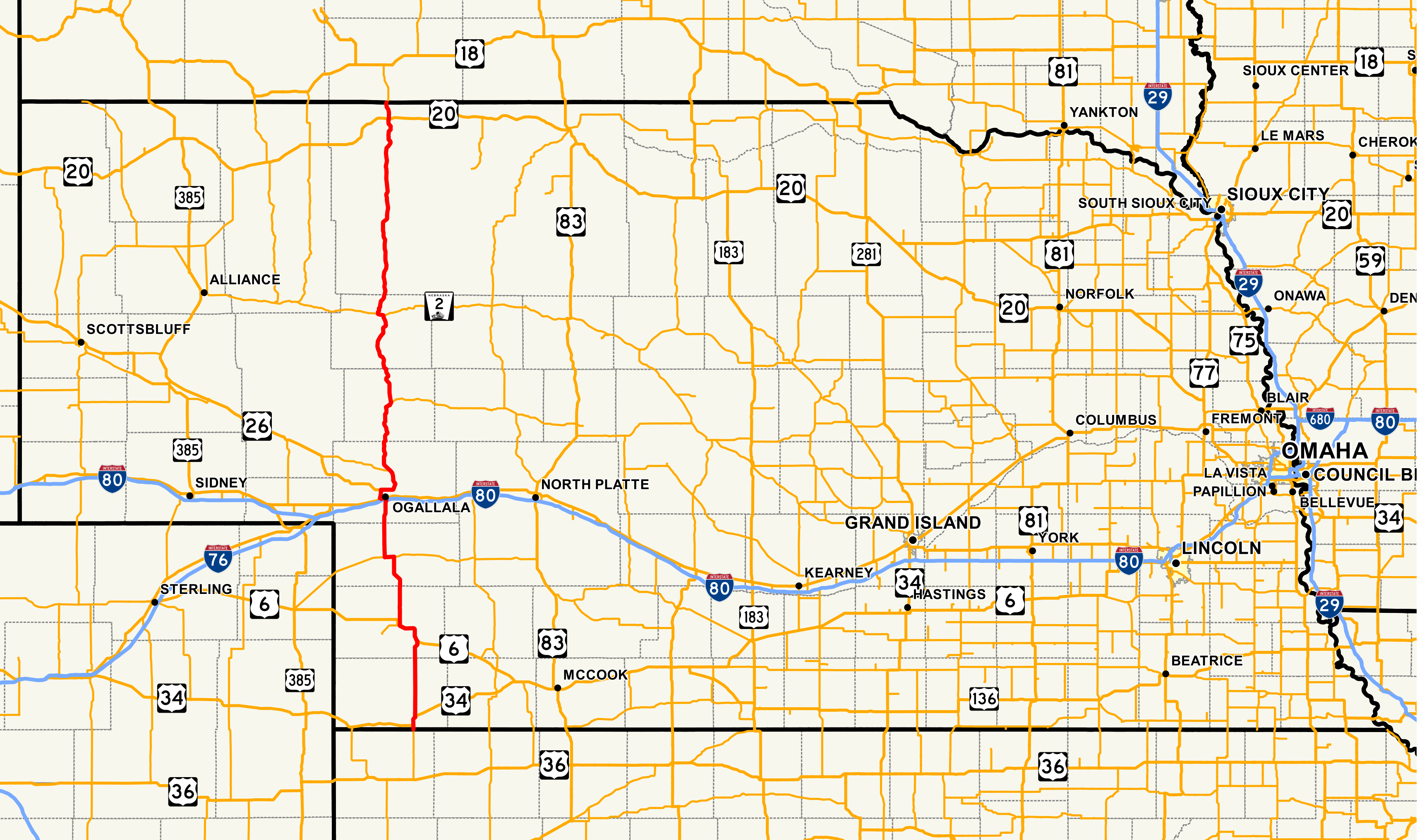 Map of Nebraska Highway 61 Data Sources: Nebraska Highways - - Dec 2016 Nebraska County Boundaries - - Dec 2016 Nebraska City Boundaries - - Dec 2016 This PNG graphic was created with QGIS